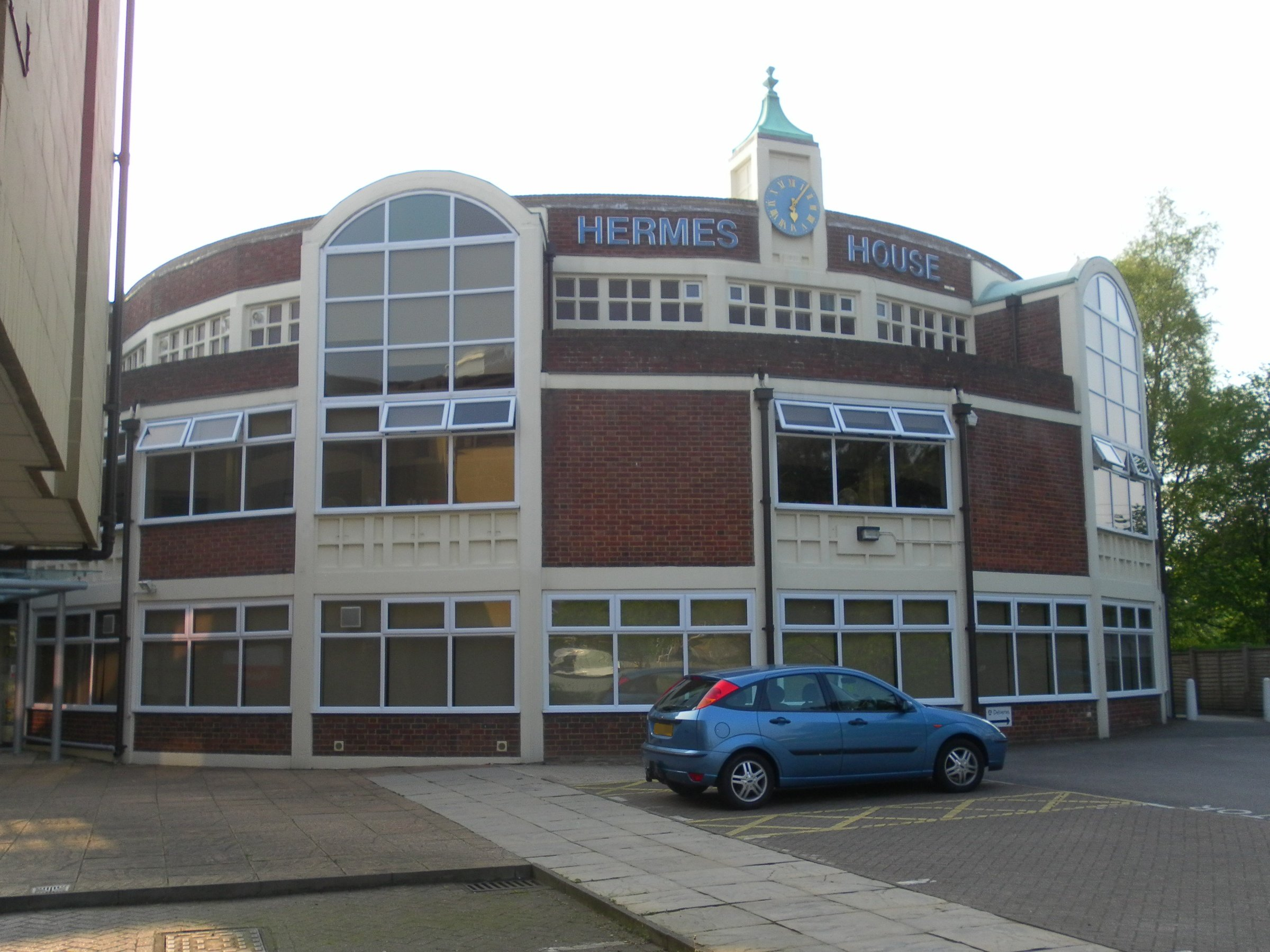 Former Christian Science Church, London Road, Royal Tunbridge Wells, Borough of Tunbridge Wells, Kent, England. Now Hermes House, the headquarters of the Freight Transport Association.